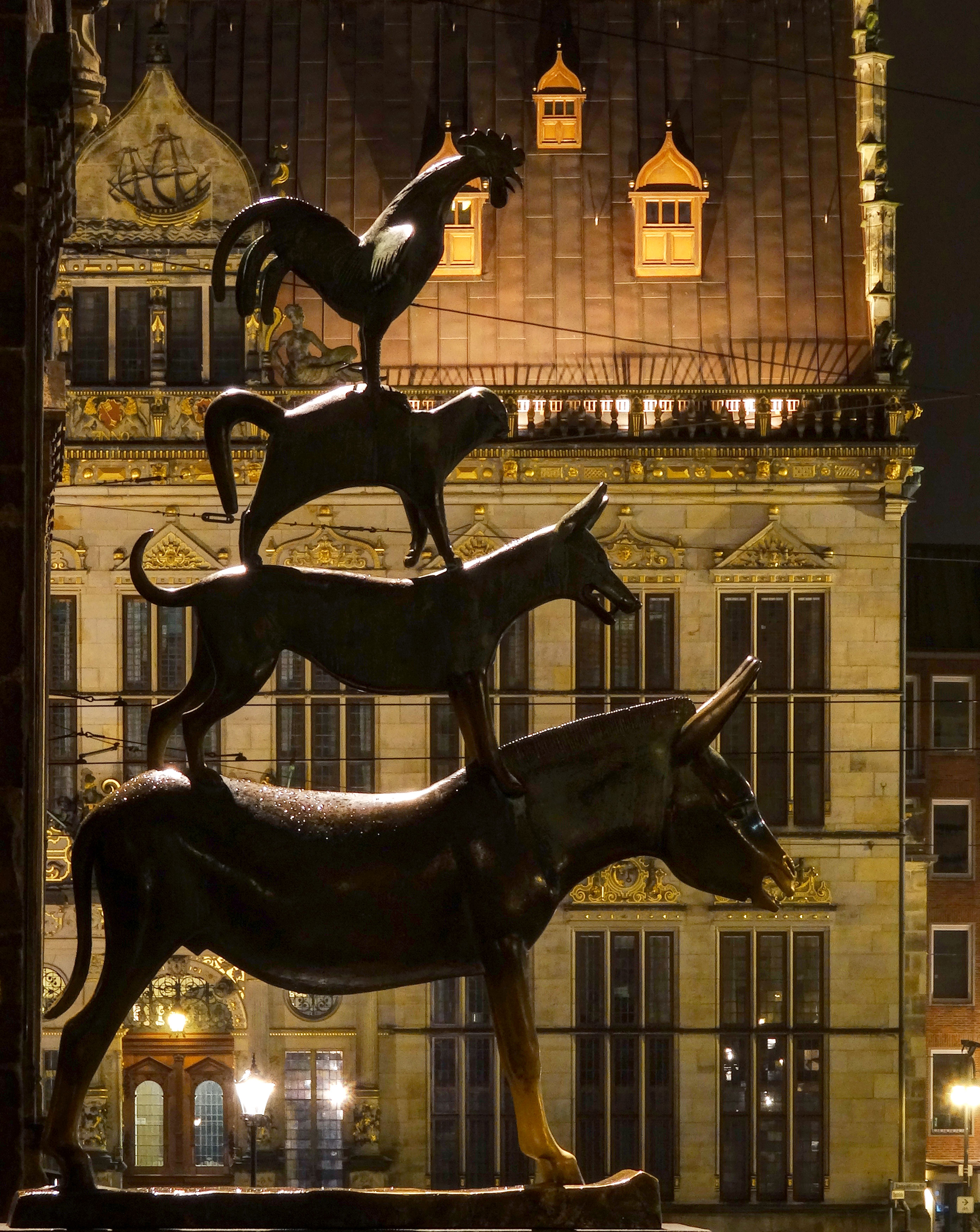 Town Musicians of Bremen (background: Schütting (Bremen))